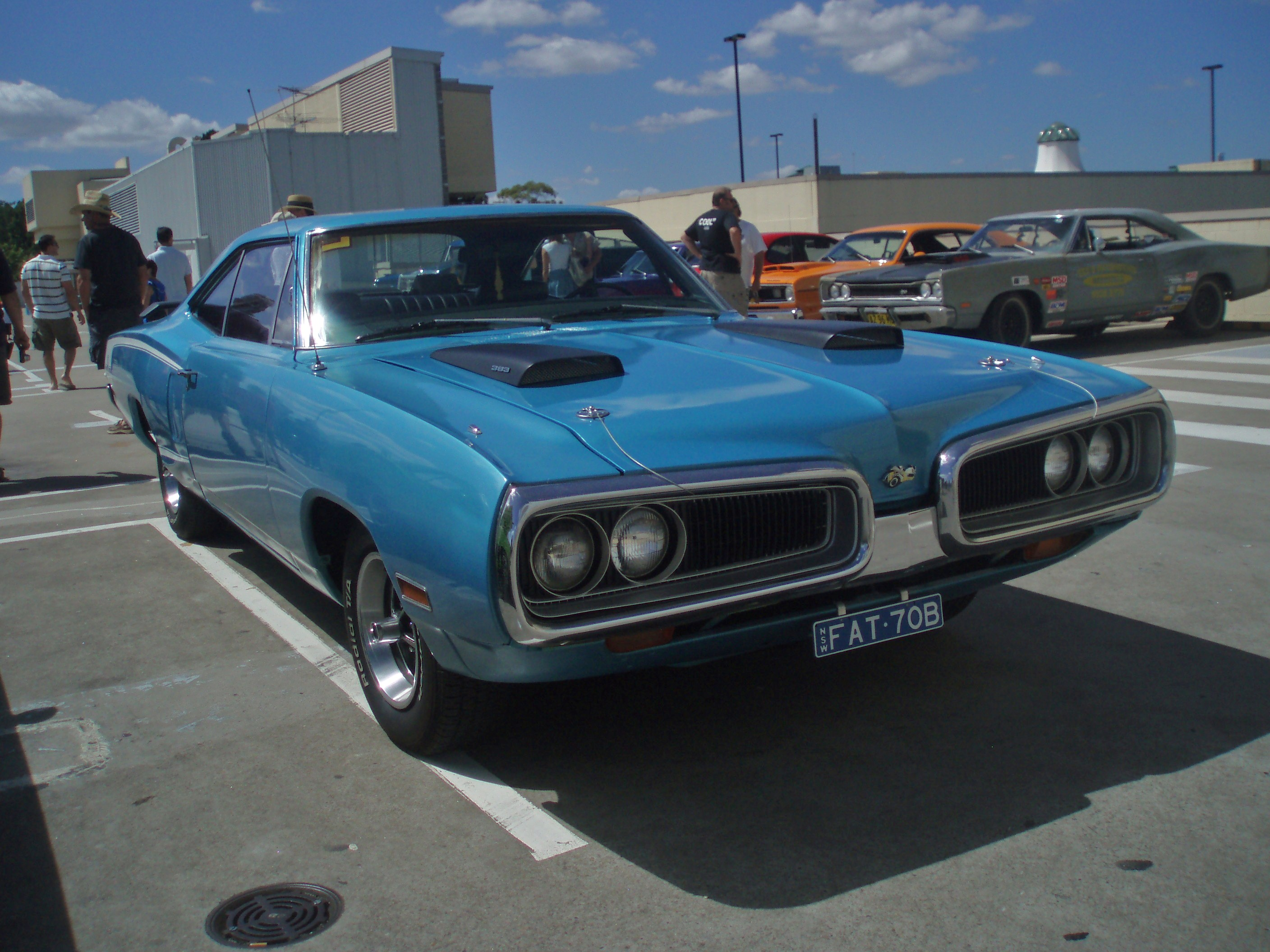 1970 Dodge Super Bee coupe. Taken at the 2009 New South Wales All American Day, held at Castle Towers Shopping Centre, Castle Hill, Sydney.